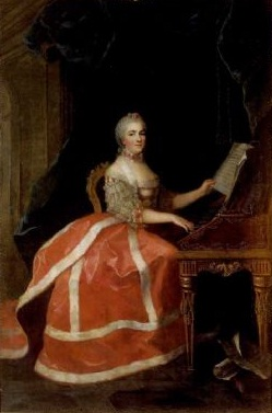 Portrait of Princess Victoire of France (1733–1799) playing the harpsichord